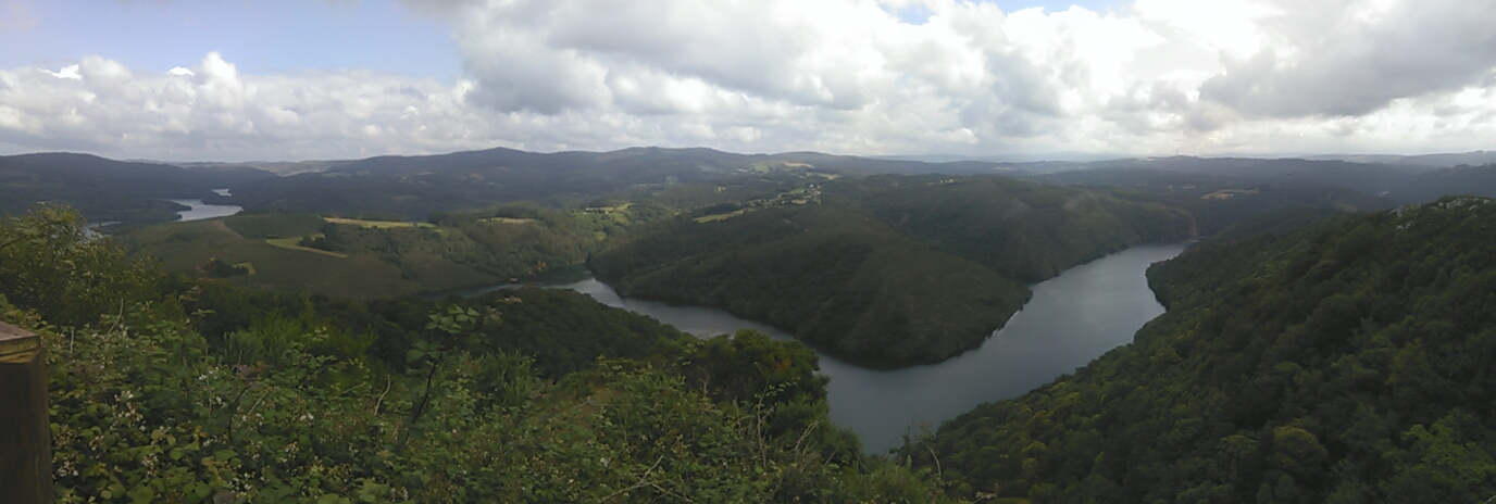 View of the Eume reservoir from "mirador da Carboeira" in Monfero.